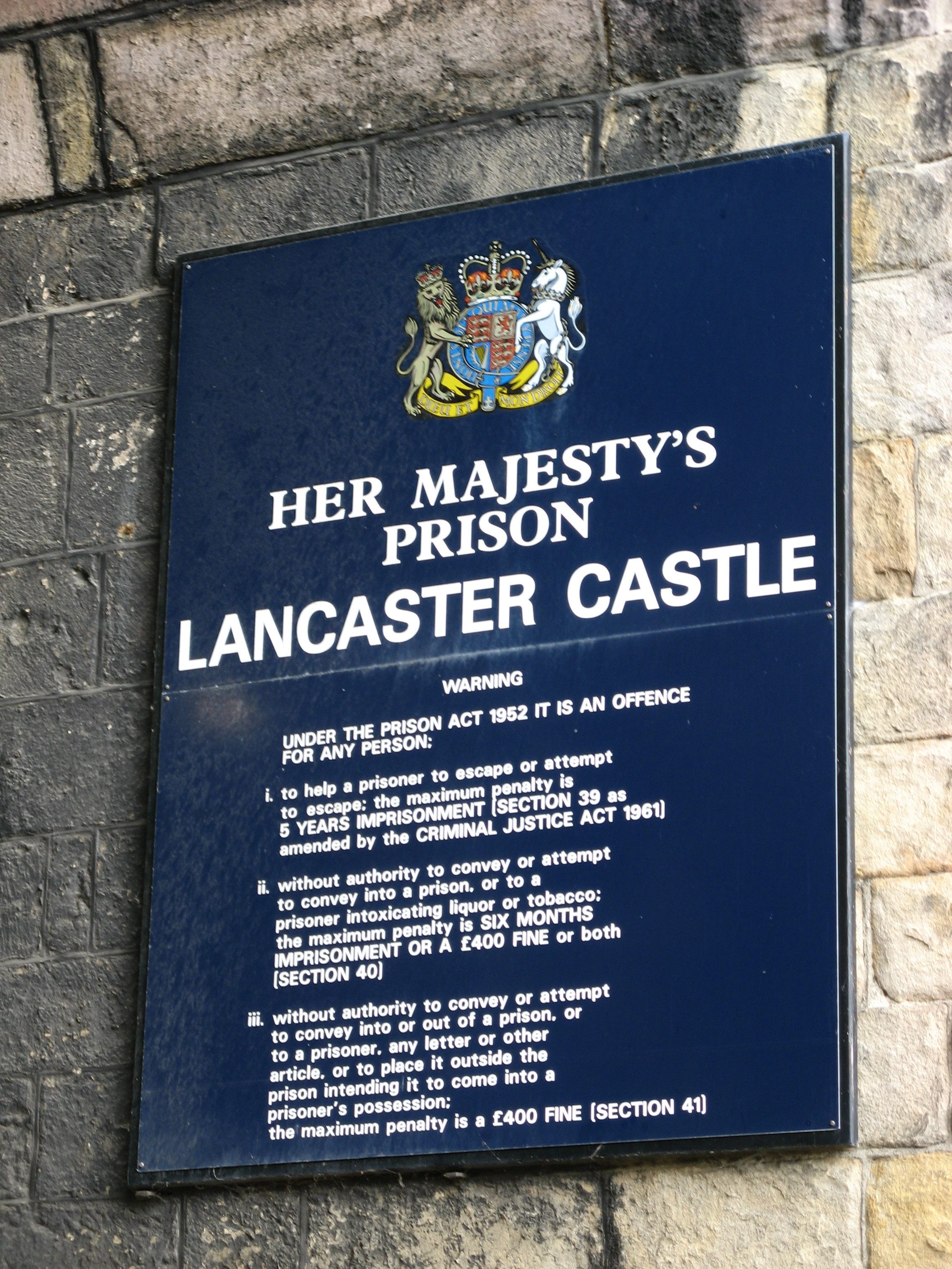 HM Prison Lancaster Castle entrance sign, in the gatehouse of Lancaster Castle.